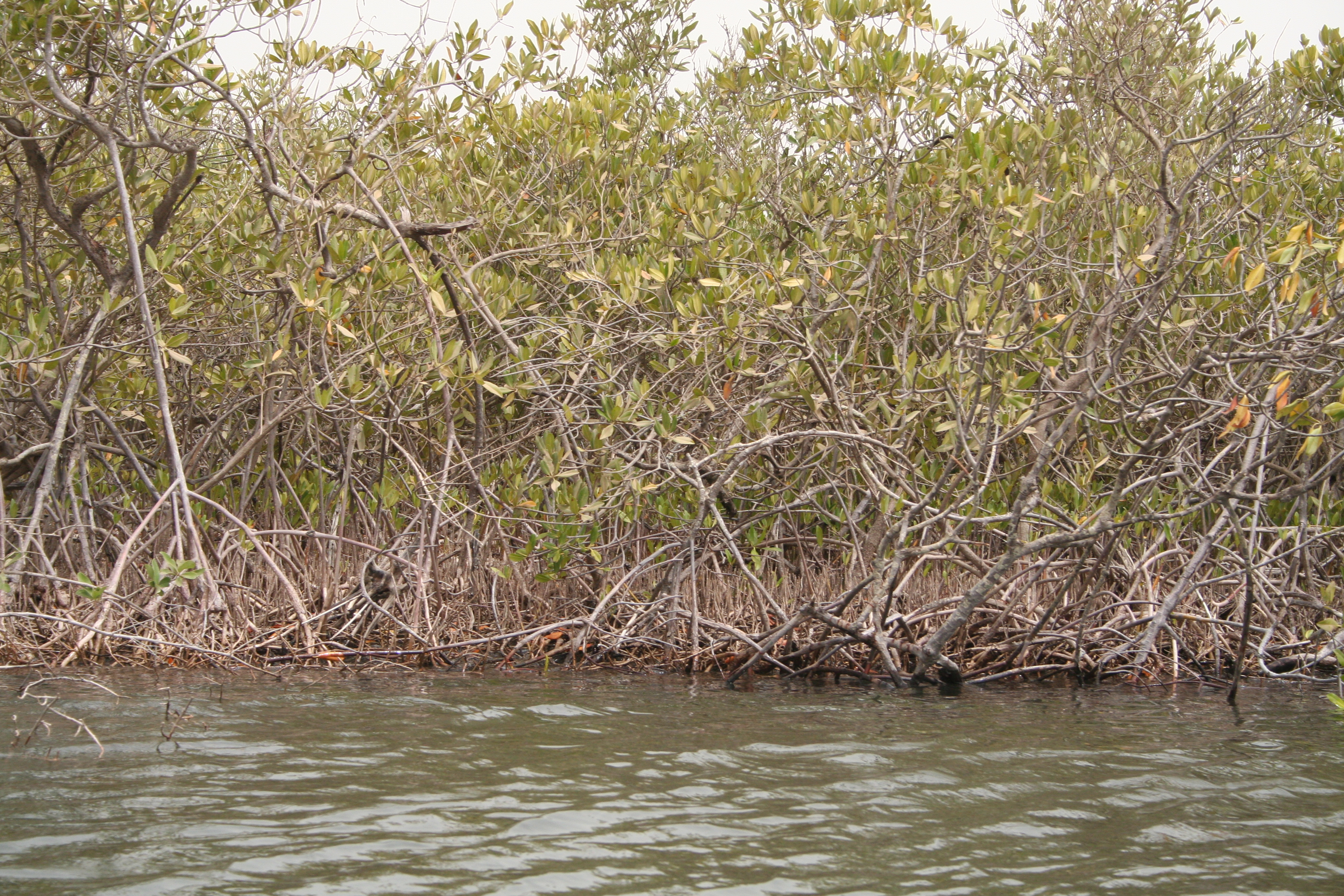 Rhizophora mangroves in the Delta-du-Saloum National Park near Toubacouta, Senegal